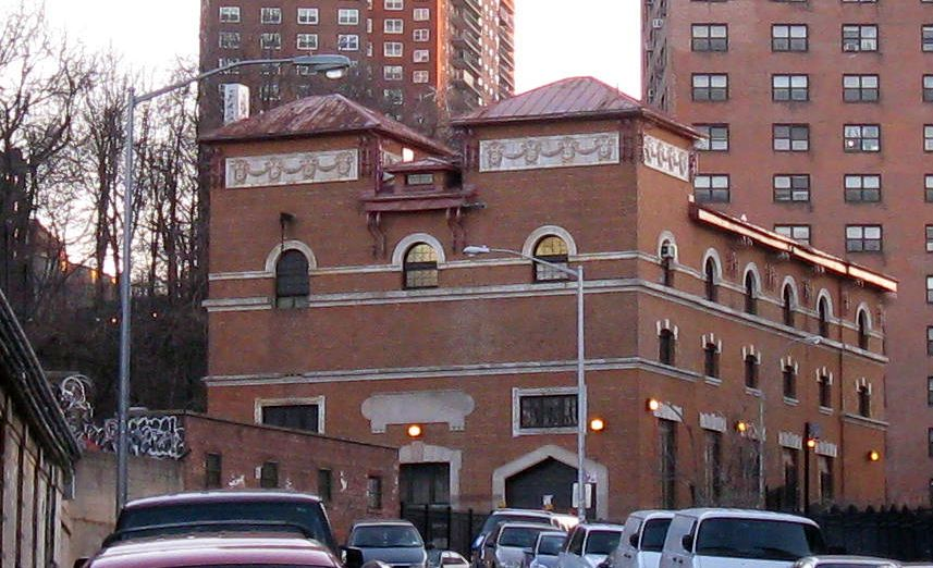 Substation 17, the Dyckman-Hillside Substation, on the National Register of Historic Places in New York City